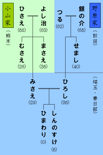 Pedigree chart of Crayon Shin-chan